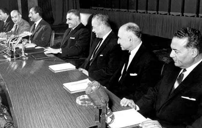 Members of the Executive Committee of the Arab Socialist Union of Egypt during the Second Session of the National Conference on the war with Israel